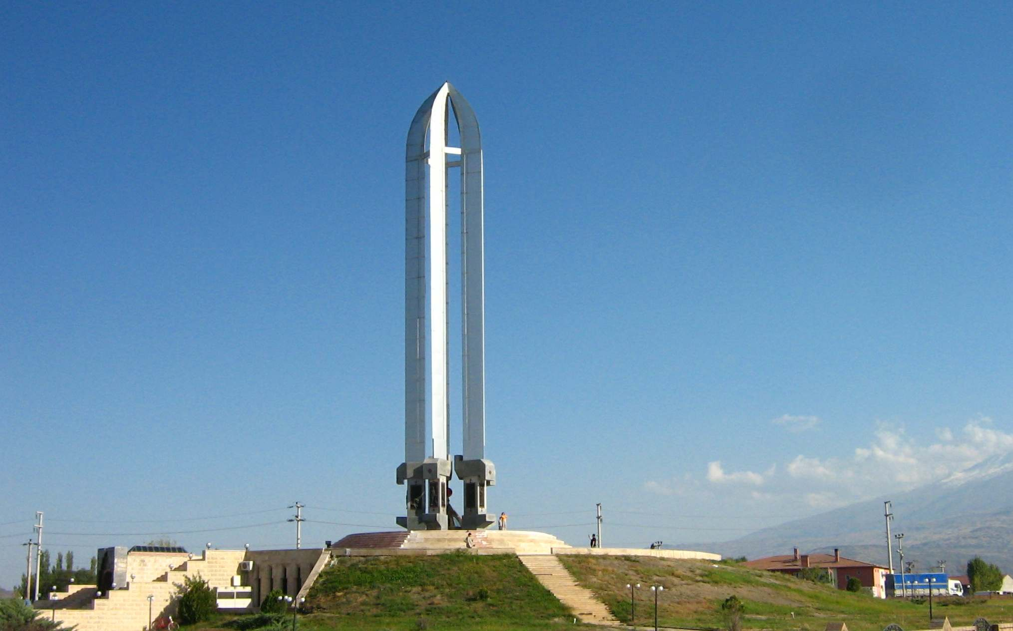 Igdir Massacre Monument and Museum, Turkey